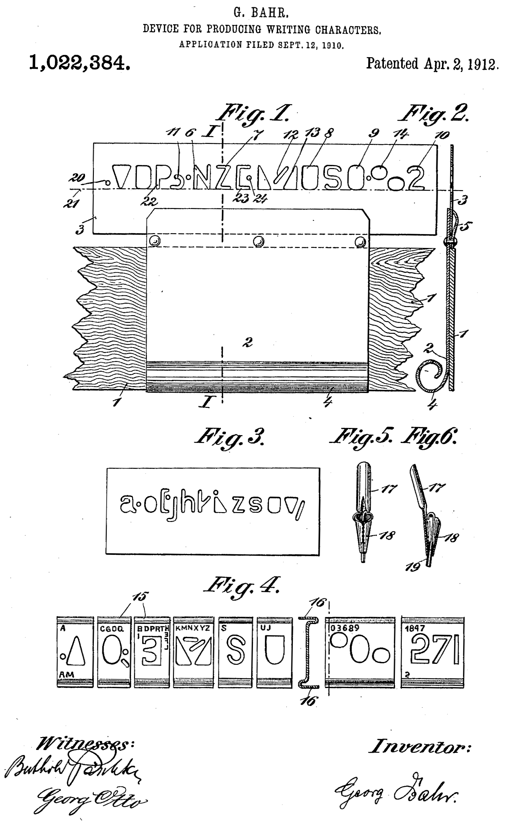 Georg Bahr's Normograph, one of the first lettering guides